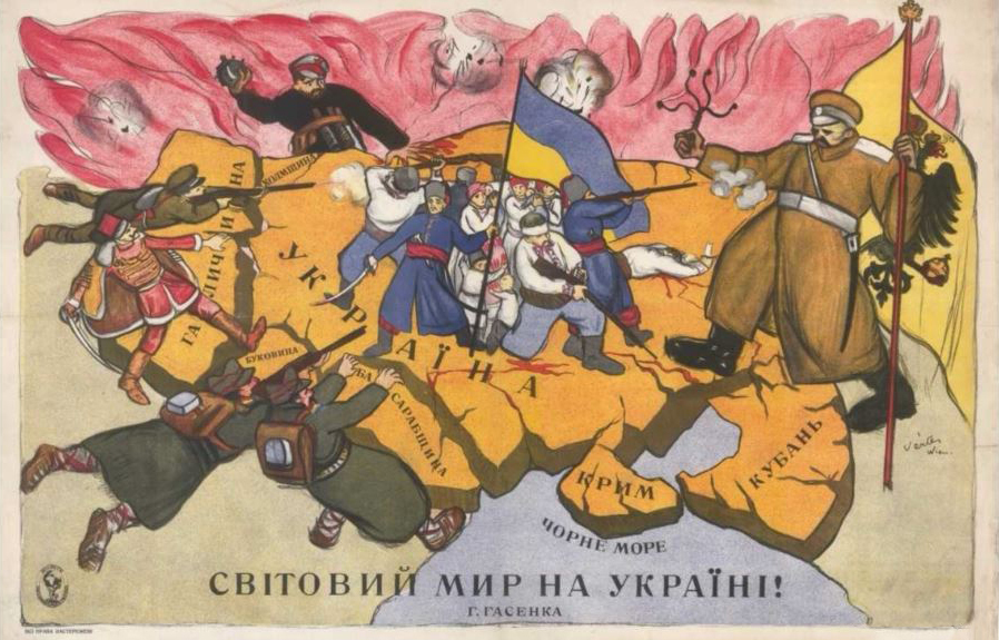 Caricature with title "Світовий мир на Україні!" (German: "Der Weltfriede in der Ukraine!"